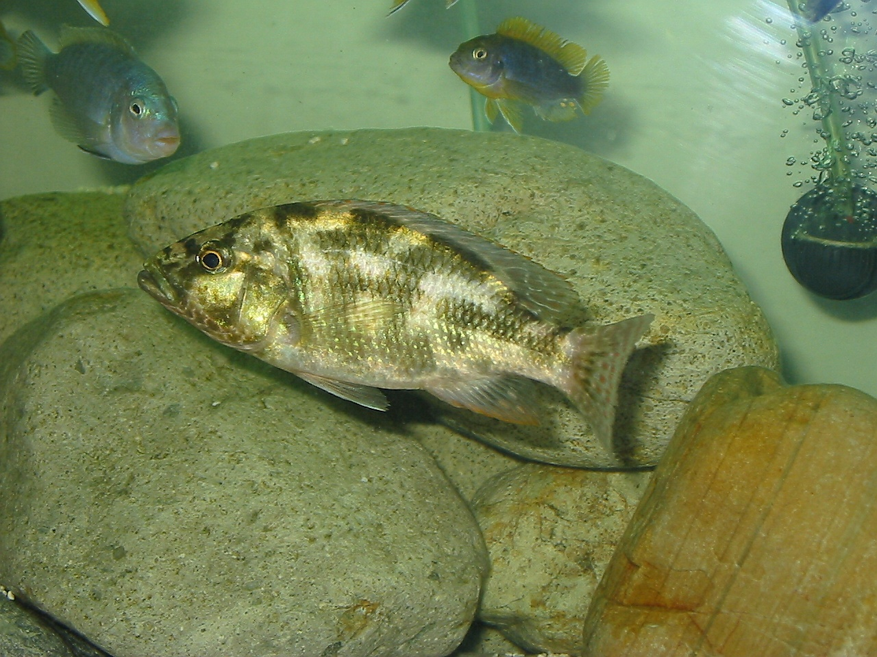 Nimbochromis polystigma (female) in Lake Malawi cichlid aquarium. The other fish in the shot are a Labidochromis hongi juvenile (male) and a Pseudotropheus socolofi (female).